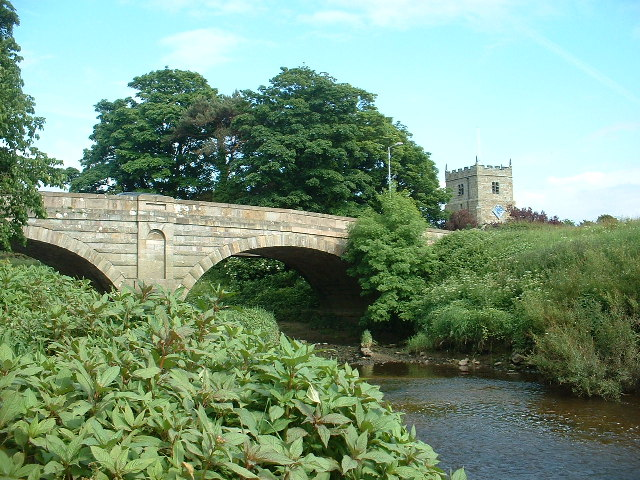 St Michael's Bridge & Church. The river is the Wyre